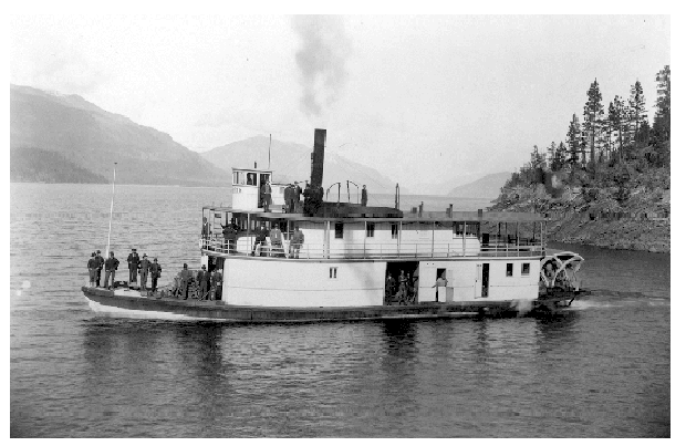 Photographer:Elite Studio Photo taken:1894 Source:A-00688 [1]